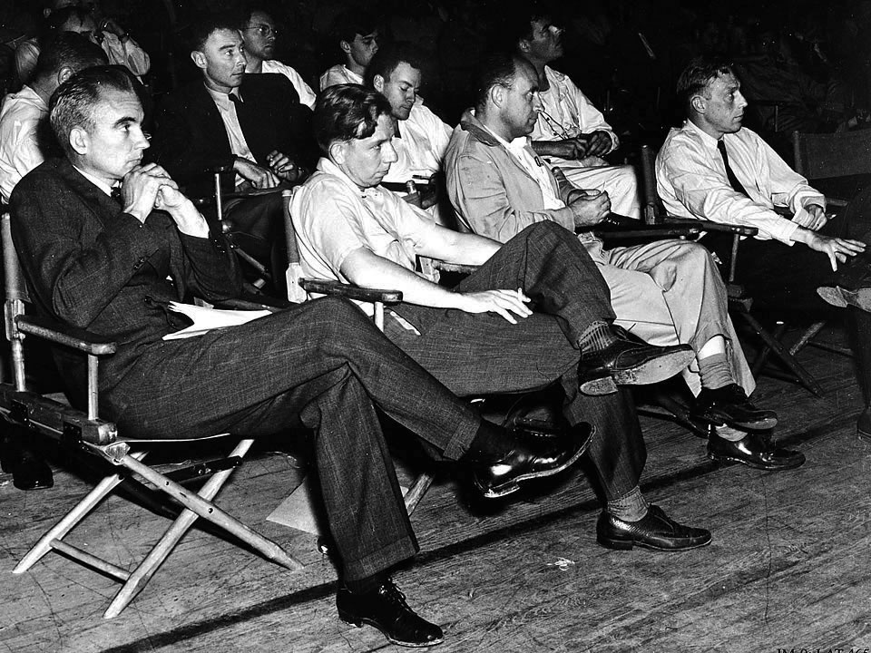 Photograph of the 1946 colloquium on the Super at Los Alamos. Front row left to right: Norris Bradbury, John Manley, Enrico Fermi and J.M.B. Kellogg. Second row left to right: unknown, Robert Oppenheimer, Richard Feynman, Phil B. Porter. Third row left to right: Gregory Breit, Arthur Hemmendinger, Arthur Schelberg.